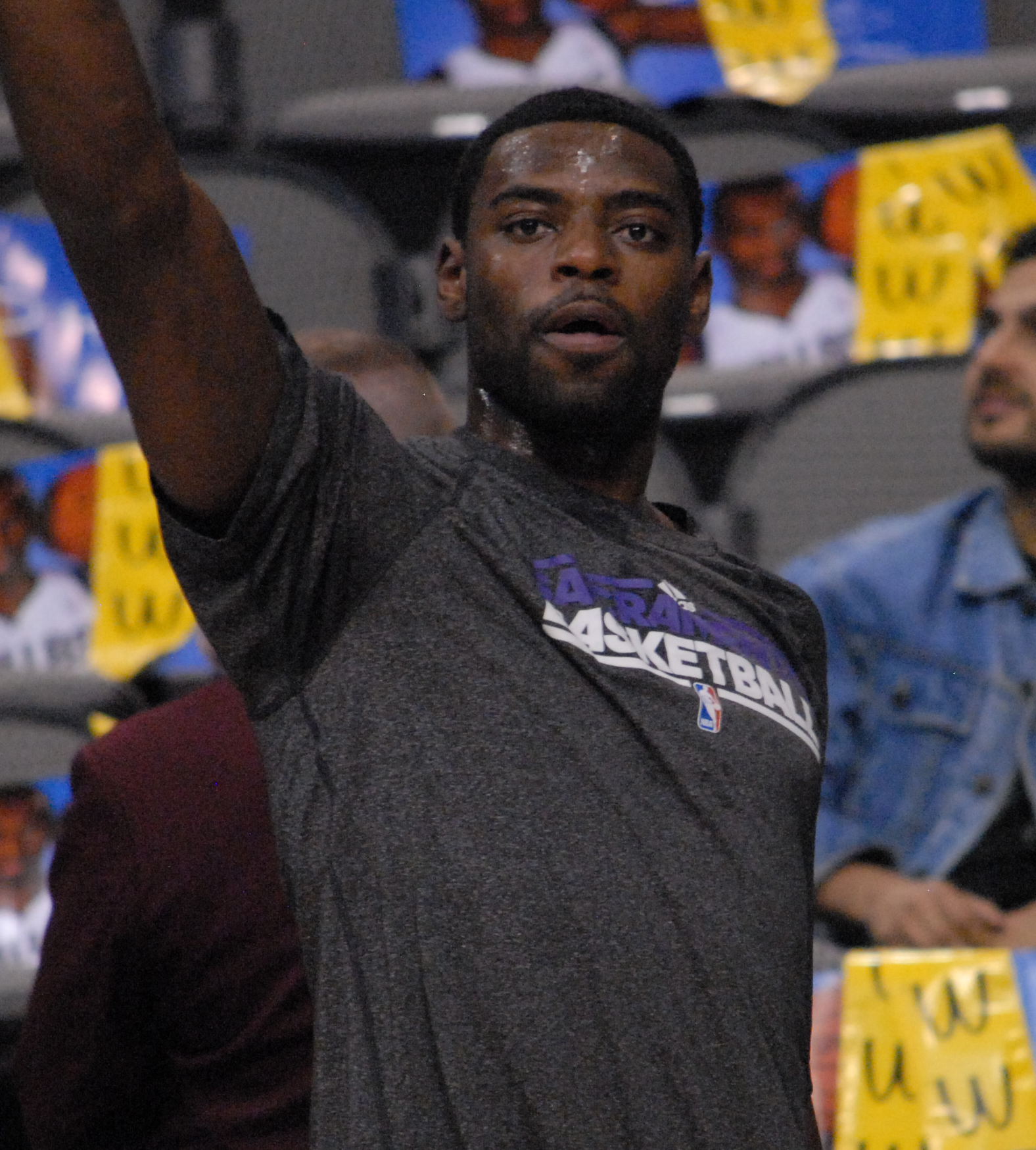 Tyreke Evans of the Sacramento Kings